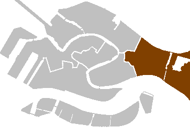 districts of Venice - Castello.